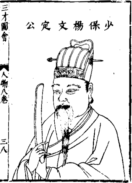 Yang Pu, politician of the Ming Dynasty.